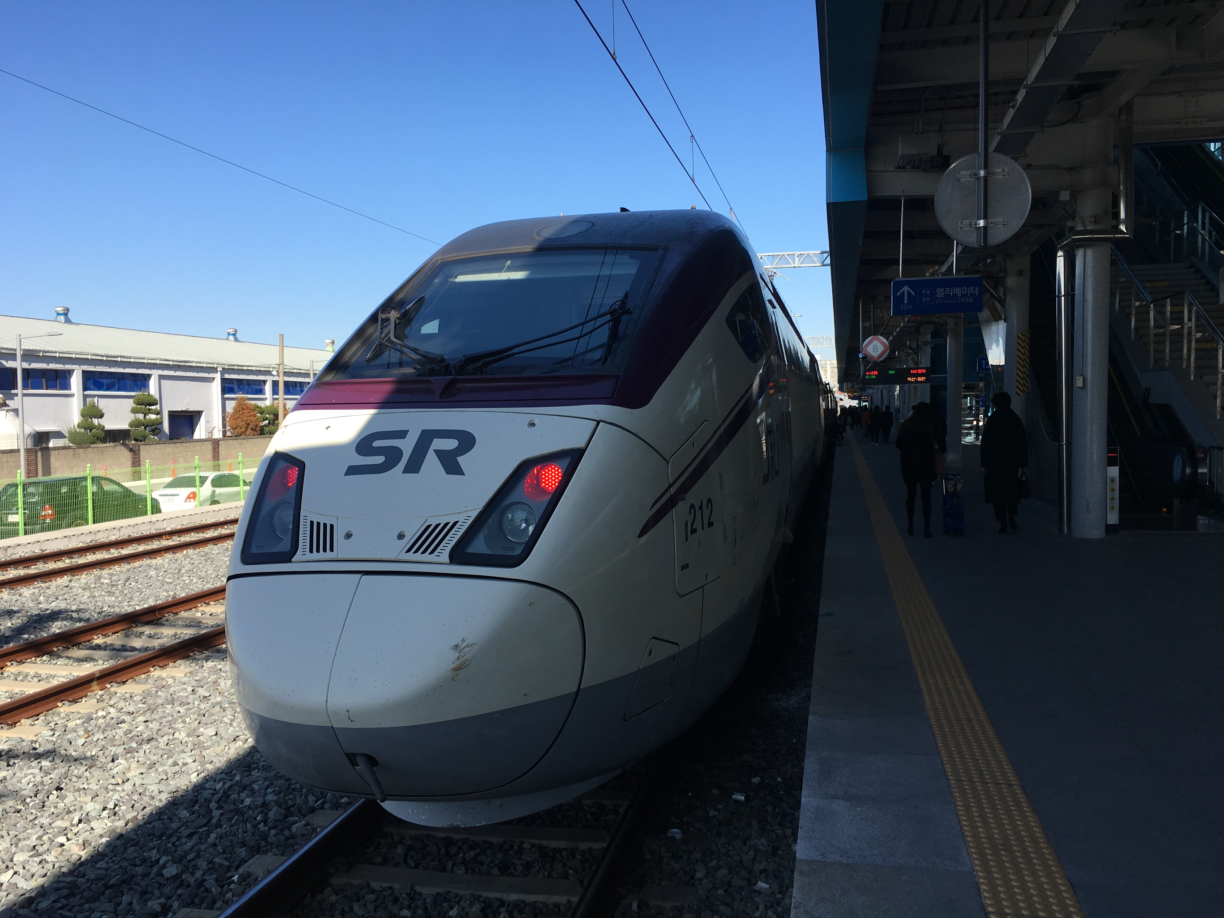 SR Train 212.